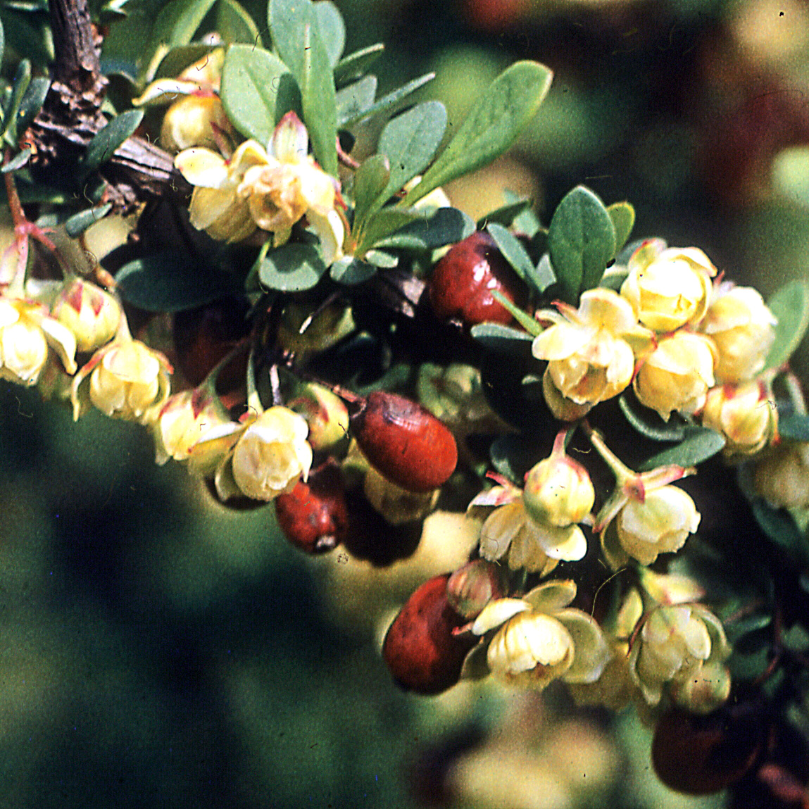 Berberis thunbergii spring aspect.